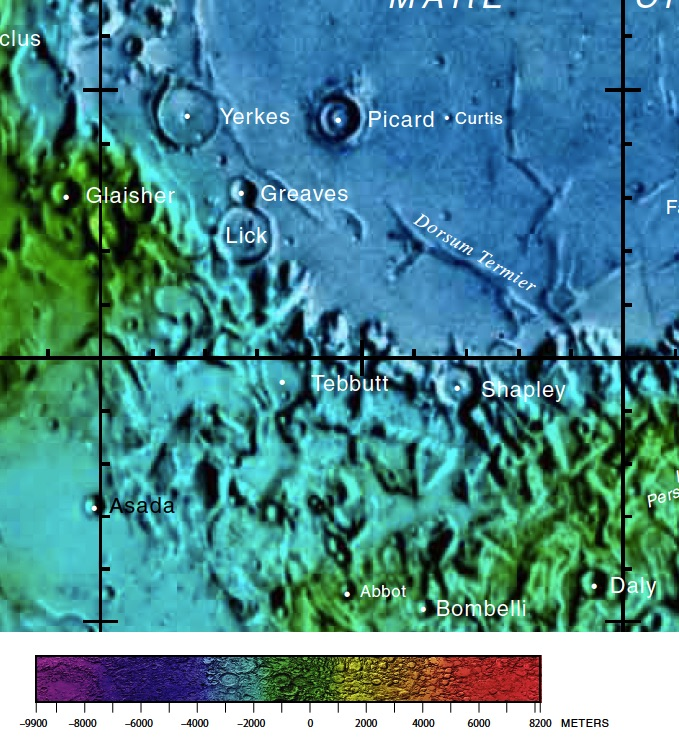 Part of the USGS near side lunar chart